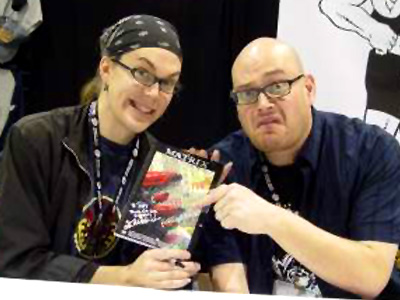 Personal photo taken at San Diego ComicCon 2004 by Charlie Meadows.